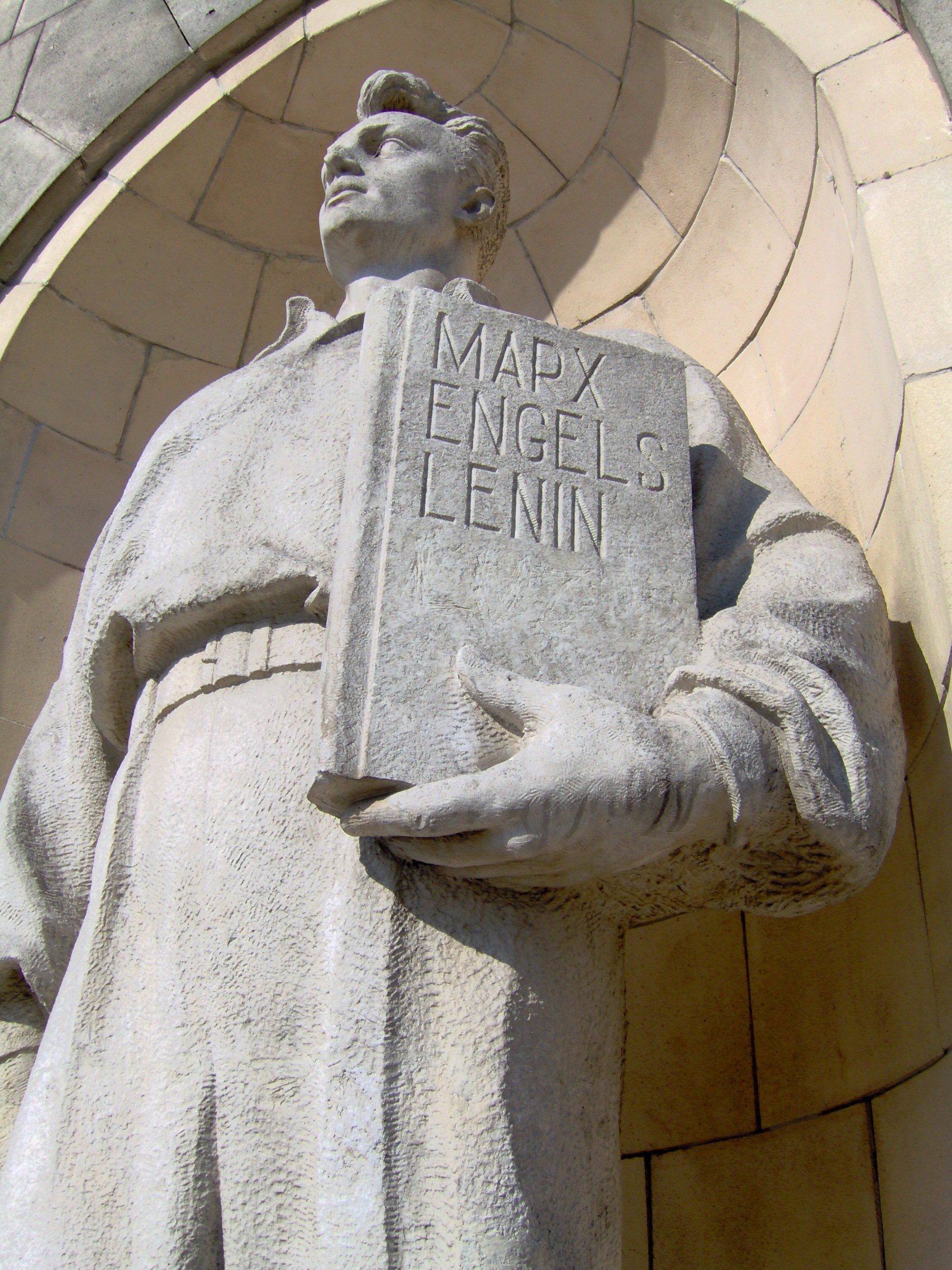 A statue at the Warsaw Palace of Culture and Science holding a book from which Joseph Stalin's name had been removed. Self taken by ProhibitOnions, 2006.